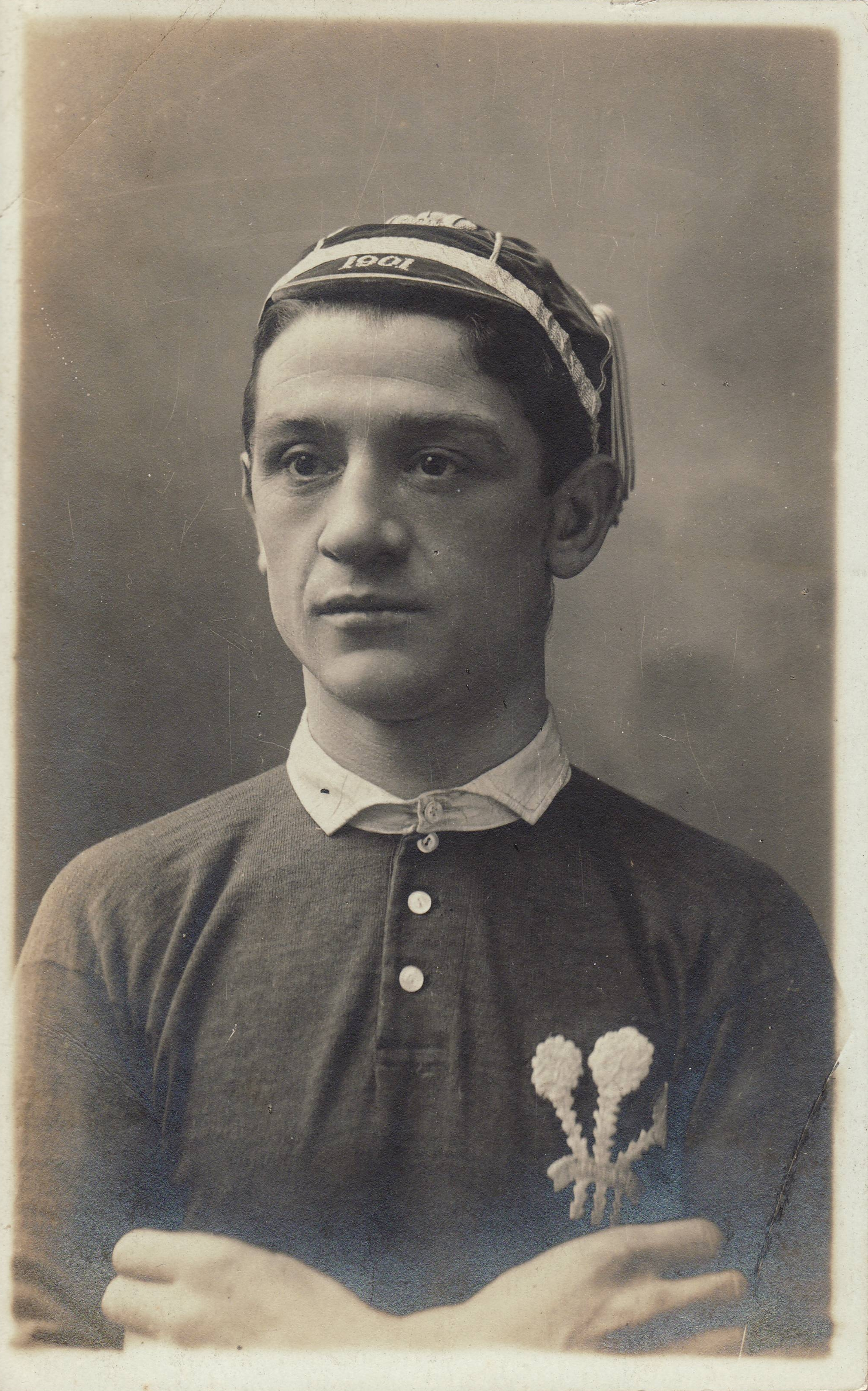 Wales international rugby union player Dicky Owen.